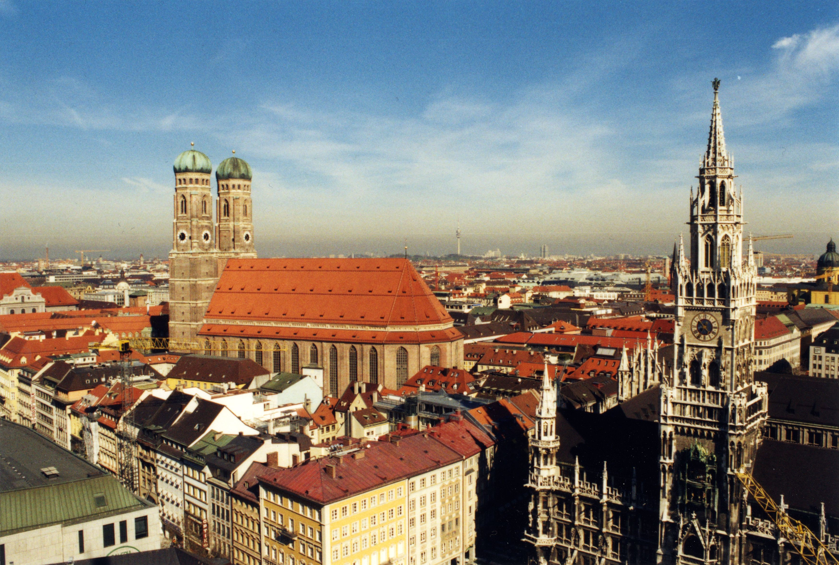 Skyline Munich, Frauenkirche and steeple of New Town Hall